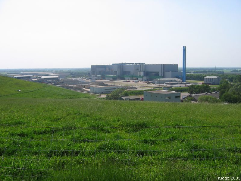 Garbage disposal center of Essent Milieu at Wijster, the Netherlands. Picture taken by Fruggo, May 2005. This picture is taken from one of the (old) landfills. Another landfill is to the left. Nowadays sheep graze there.